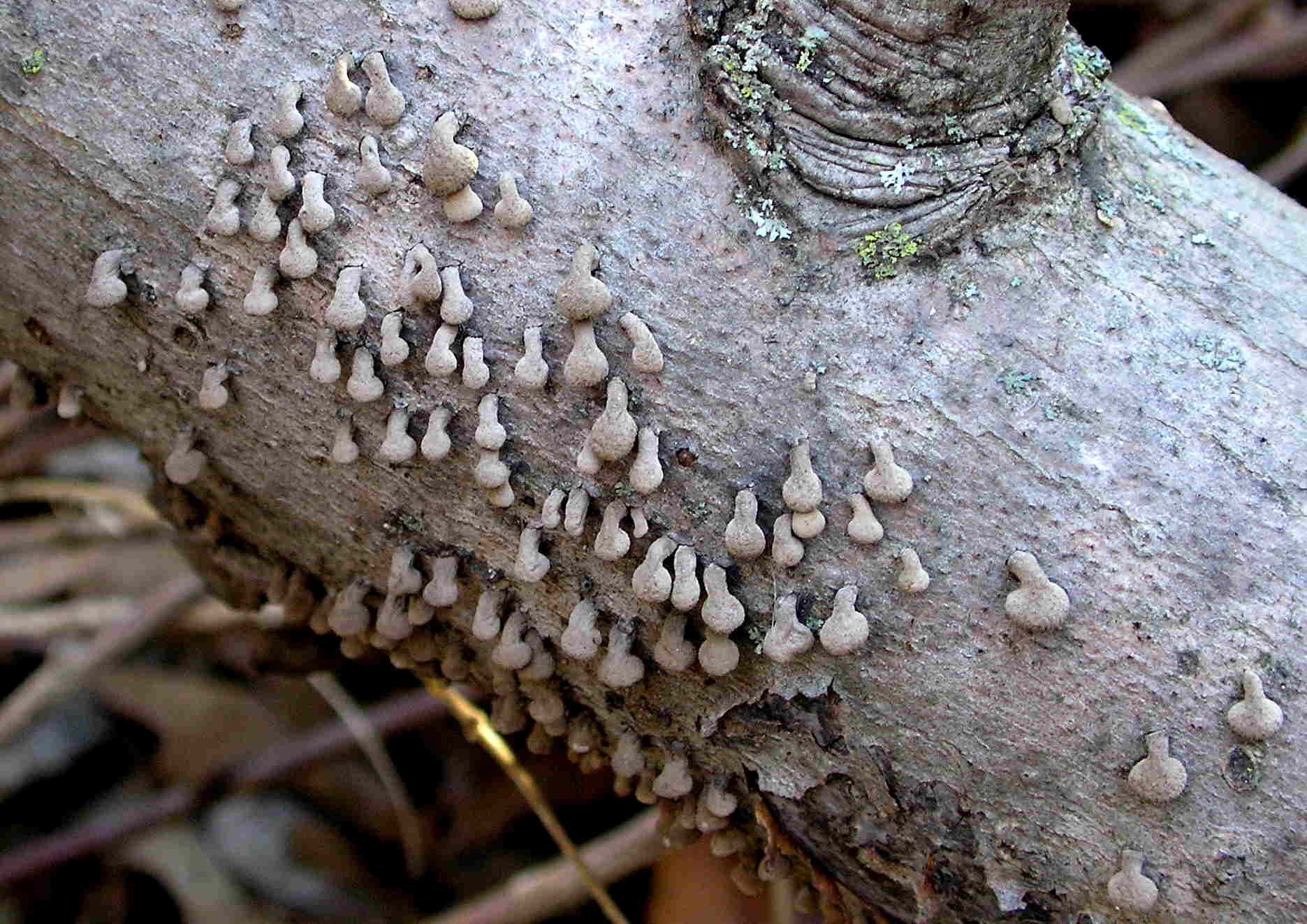 Fruit bodies of the fungus Porodisculus pendulus. Photographed in Jackson Park, Atchison, Kansas, USA.